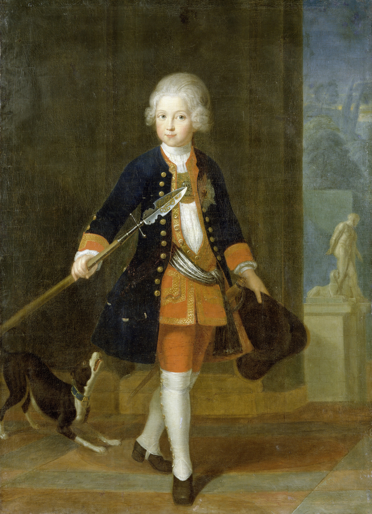 Frederick, Crown Prince of Prussia (later King of Prussia and Elector of Brandenburg)